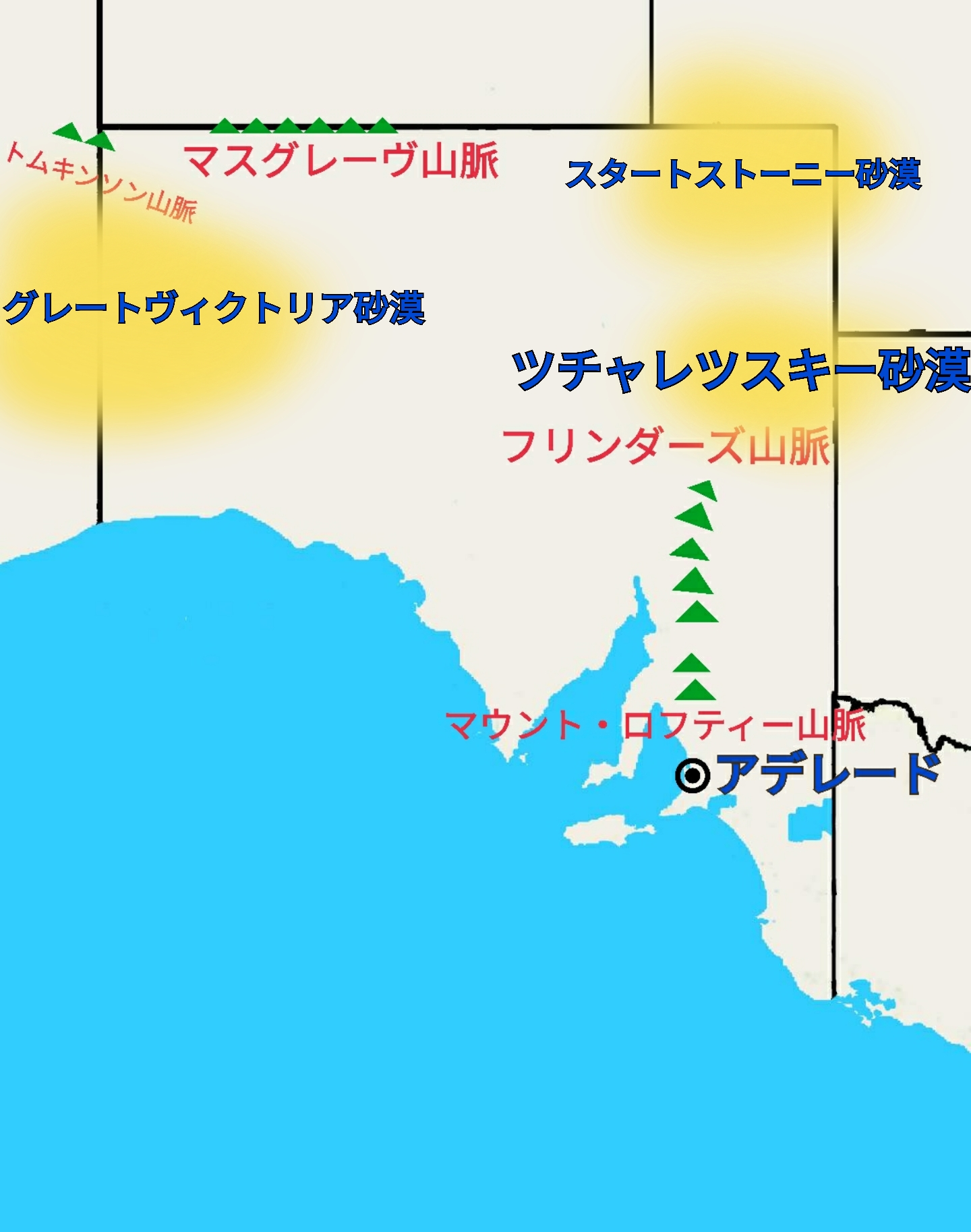 Describing geography of South Australia.